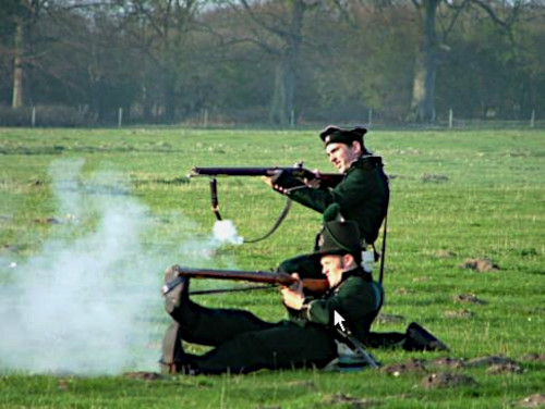 95th Rifles reenactors firing in the Plunkett position